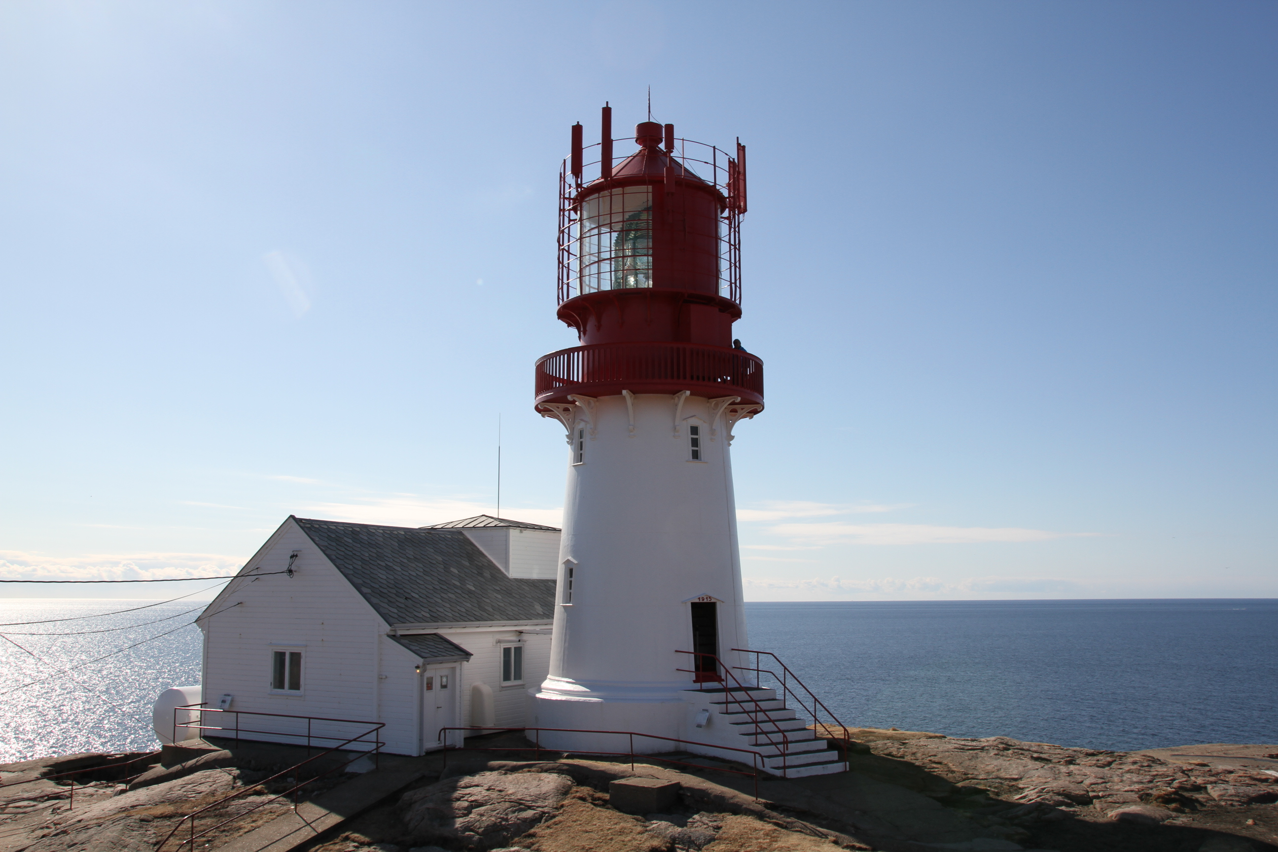 Image from Lindesnes fyr (Lindesnes Lighthouse), marking the very southern tip of Norway's mainland - in Vest-Agder county.